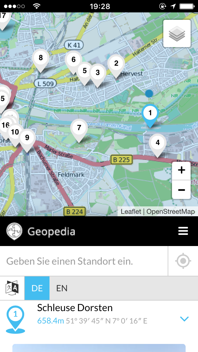 geopedia on iPhone 5s